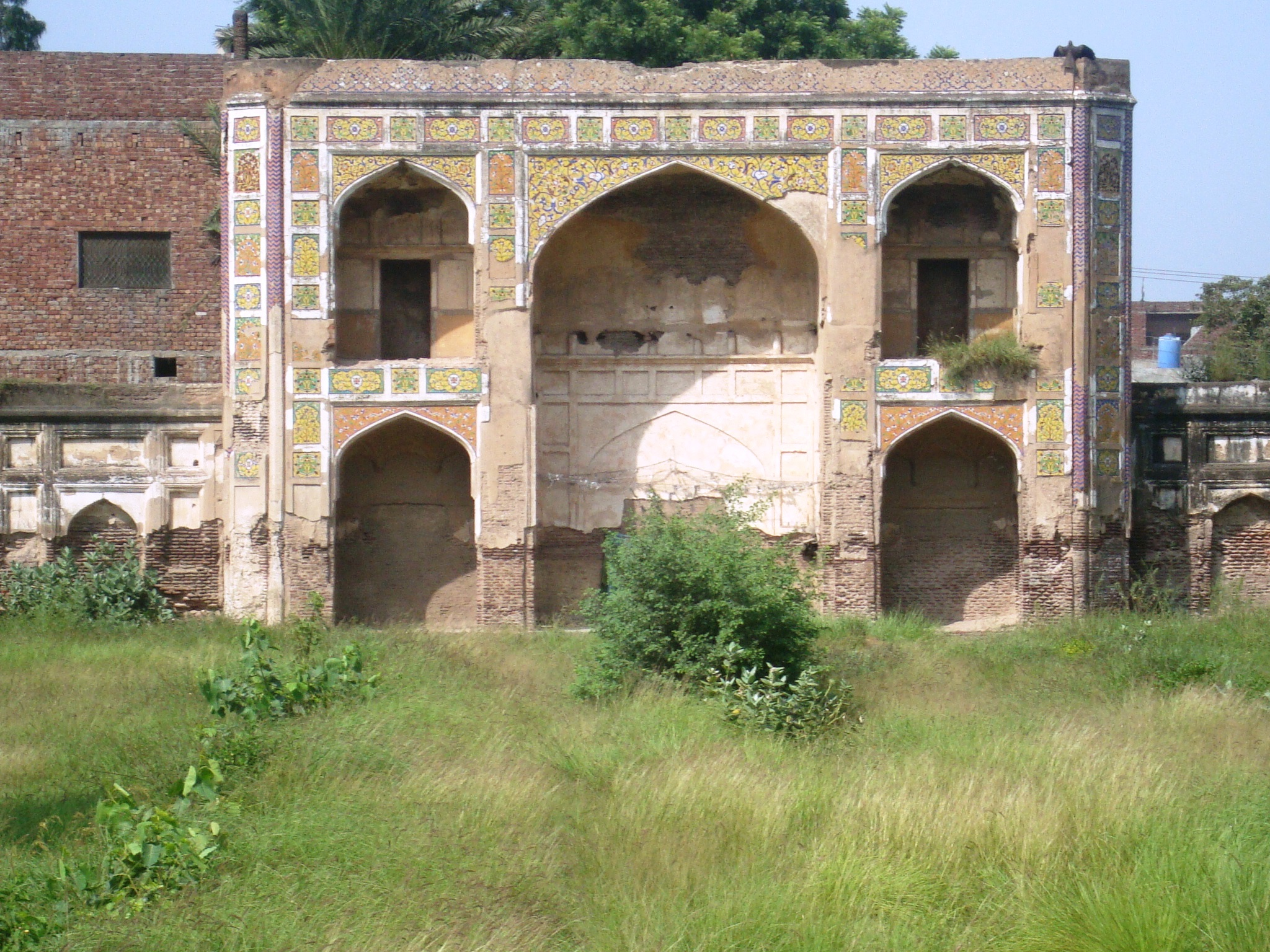 Tomb of Asif Khan This is a photo of a monument in Pakistan identified as the PB-43